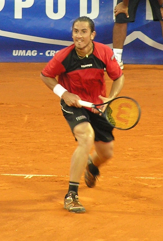 Guillermo Cañas in Umag, Croatia